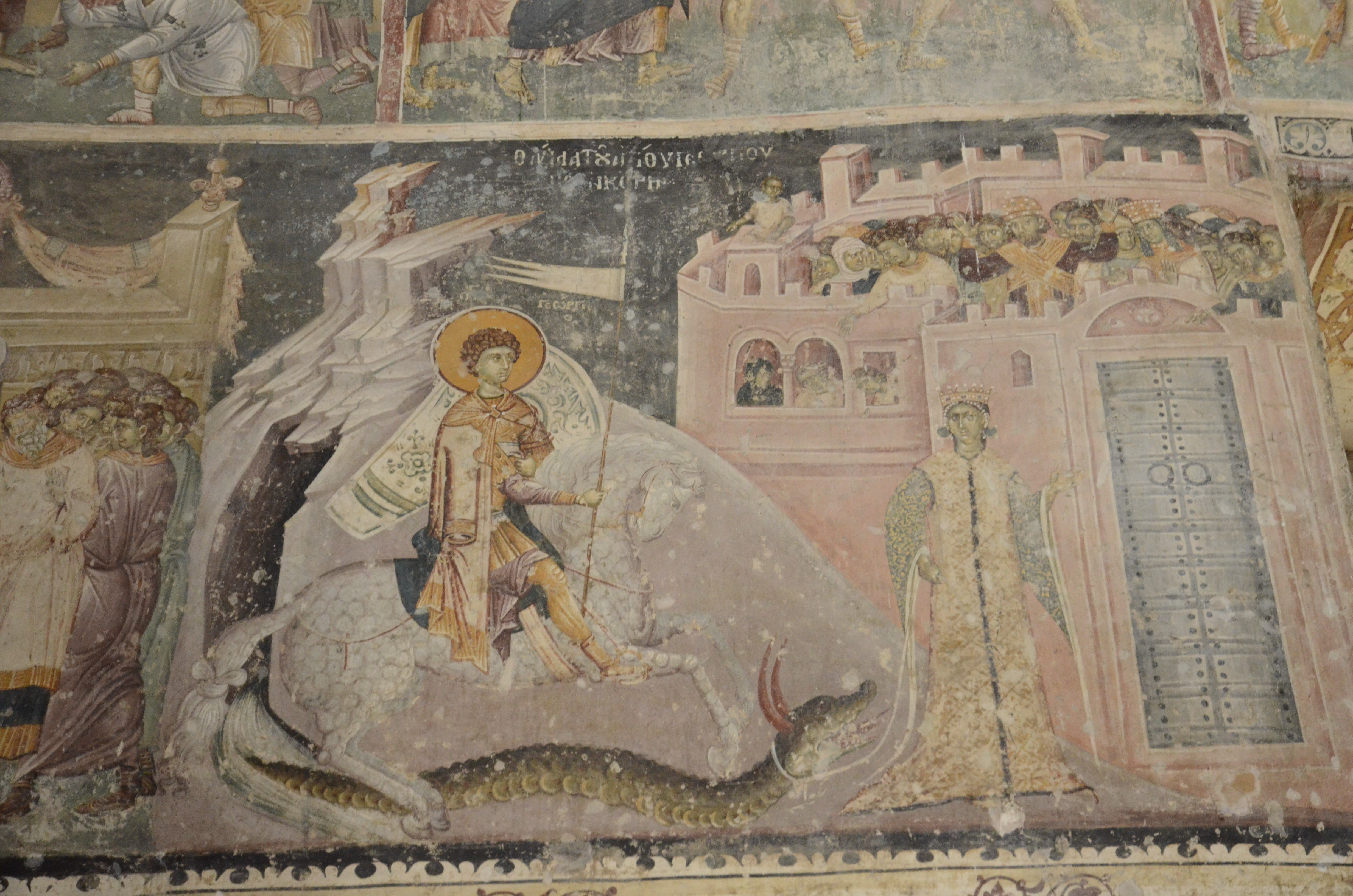 Church of Saint George in Staro Nagorichino, George slaying the dragon